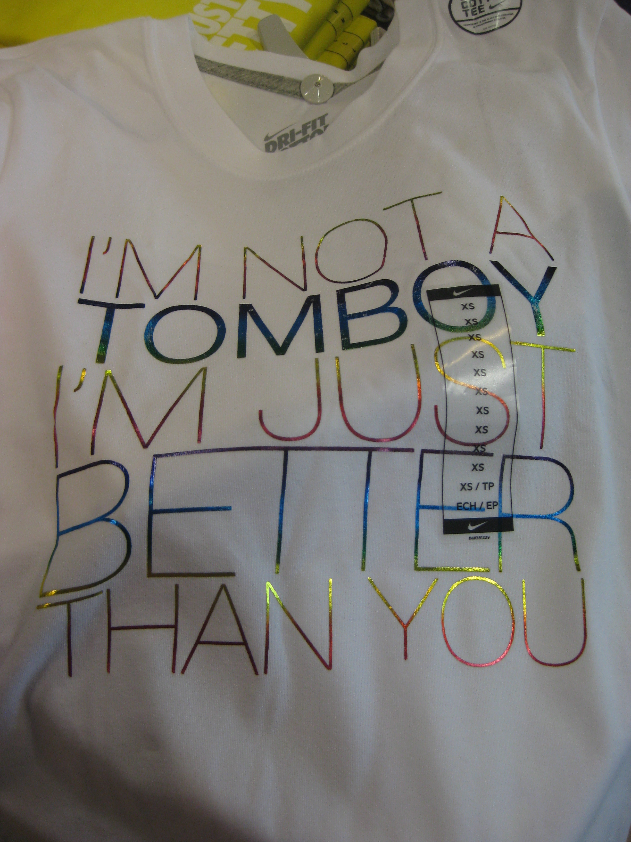 A t-shirt with the description: I'm not a tomboy — I'm just better than you.